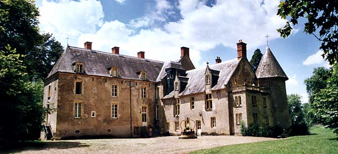 VIEIL AZY back side